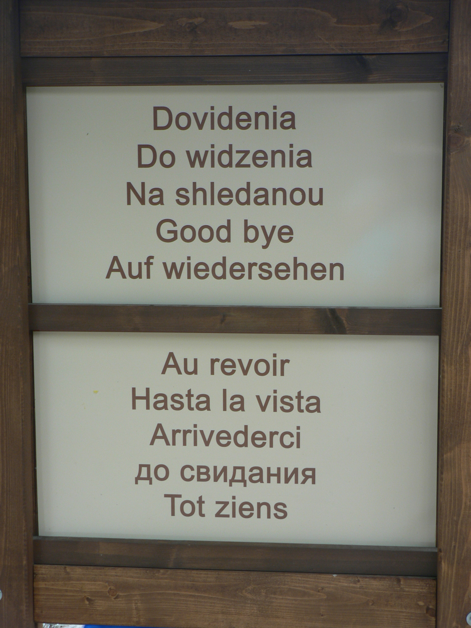 Good bye from Orava Castle